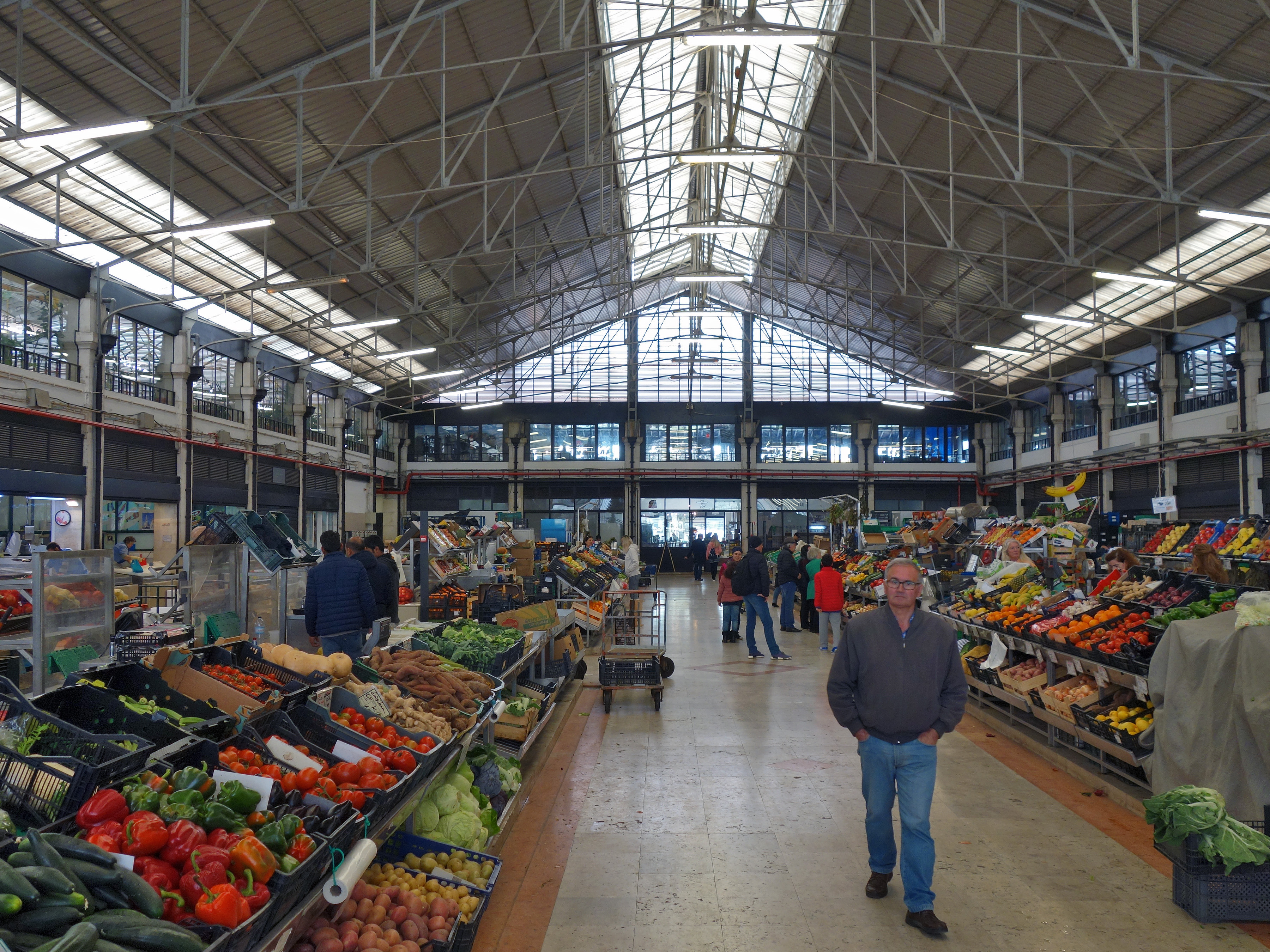 East hall of the Mercado da Ribeira market hall, Lisboa 2019